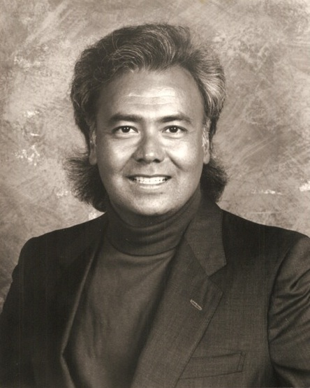 Billy Hinche of Dino, Desi & Billy